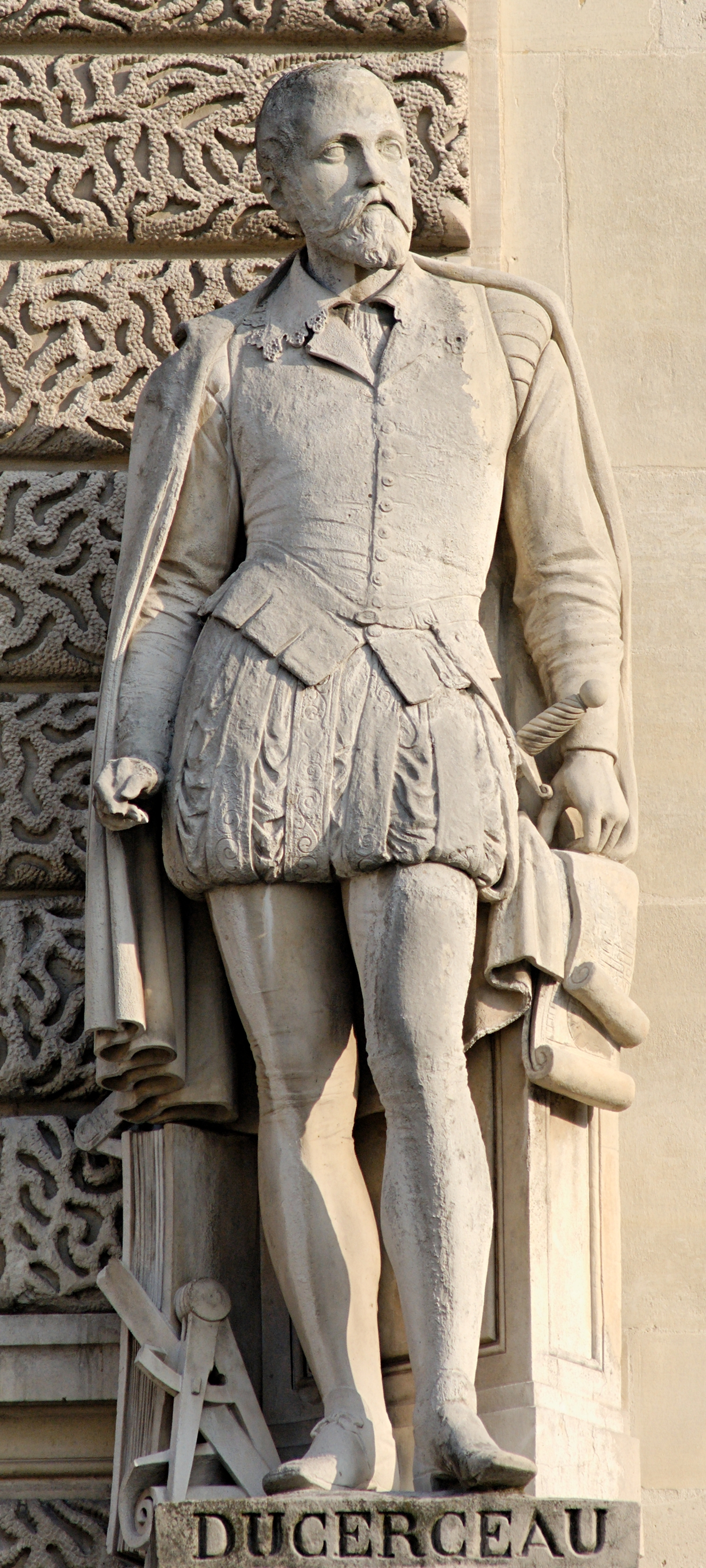 Ducerceau by Georges Diebolt. Stone, ca. 1853. 14th statue from Pavillon Colbert to Pavillon Sully, Cour Napoléon in the Louvre.